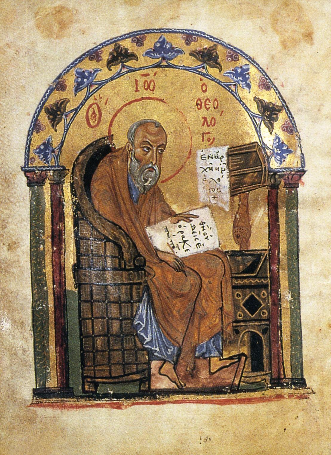 John the Evangelist, miniature, Gospel Book, Dujcev Research Centre - Sofia, Gr. 358, fol. 107v